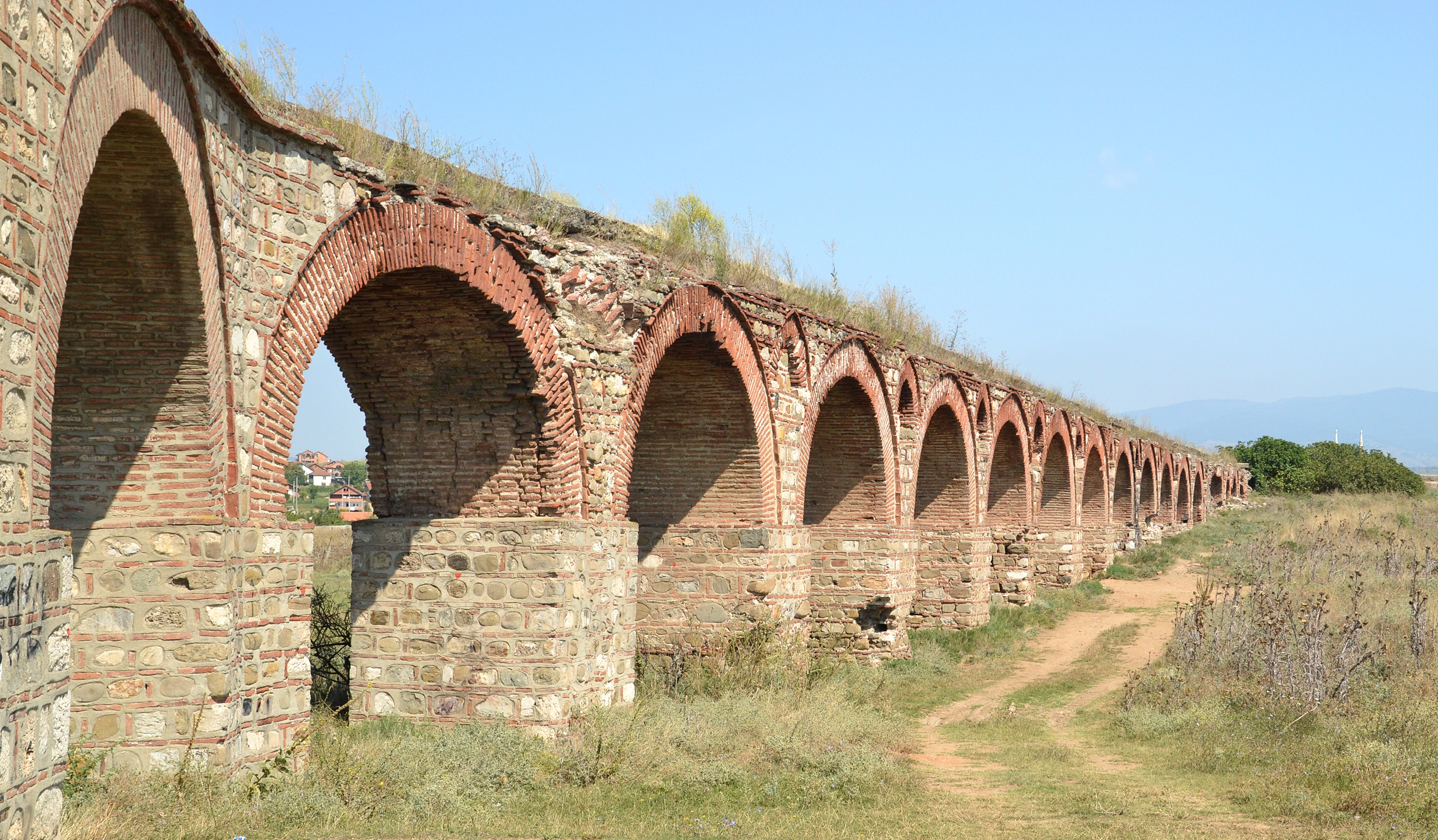 Skopje Aqueduct, Macedonia